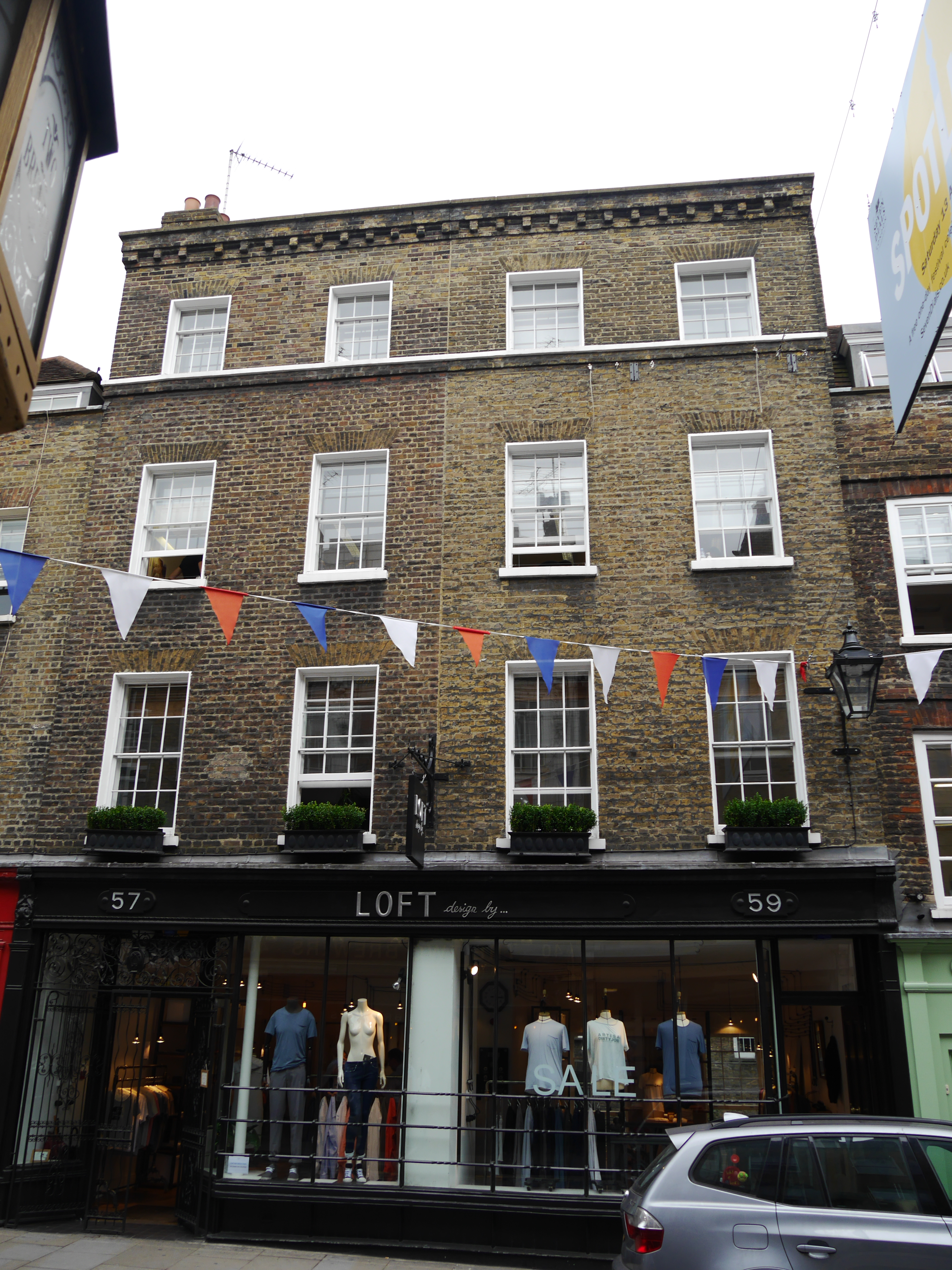 Monmouth Street, Covent Garden